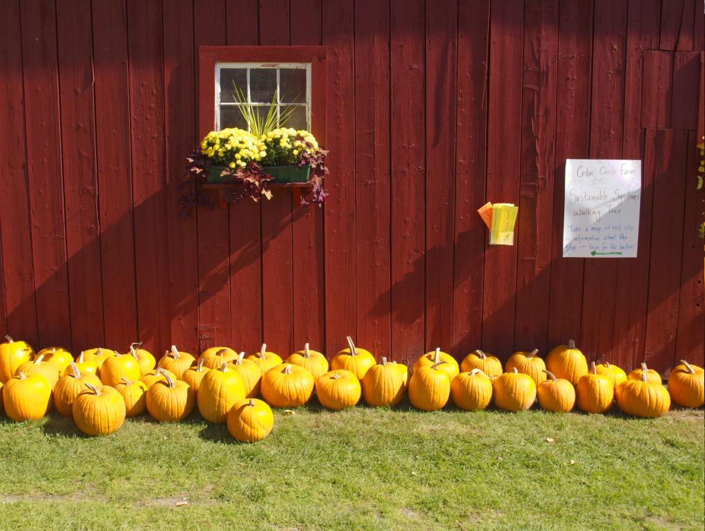 More of the same